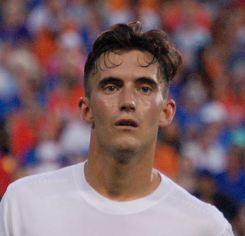 Ross Tomaselli (CIN) Taken during an exhibition match between FC Cincinnati and Crystal Palace F.C. at Nippert Stadium in Cincinnati on July 16, 2016.